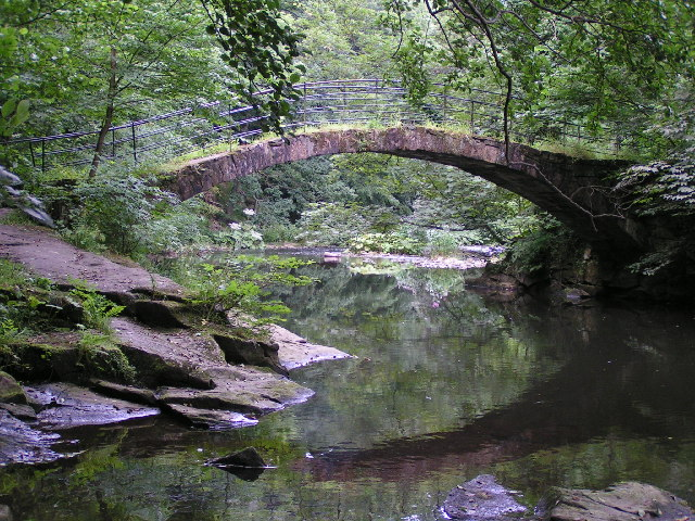 "Roman Bridge" over the River Goyt at Strawberry Hill, near Marple, Greater Manchester. It was named the "Roman Bridge" by the Victorians but it's really a 17th-century packhorse bridge. The nearby "Roman Lakes" are another inaccurate but romantic Victorian coinage.